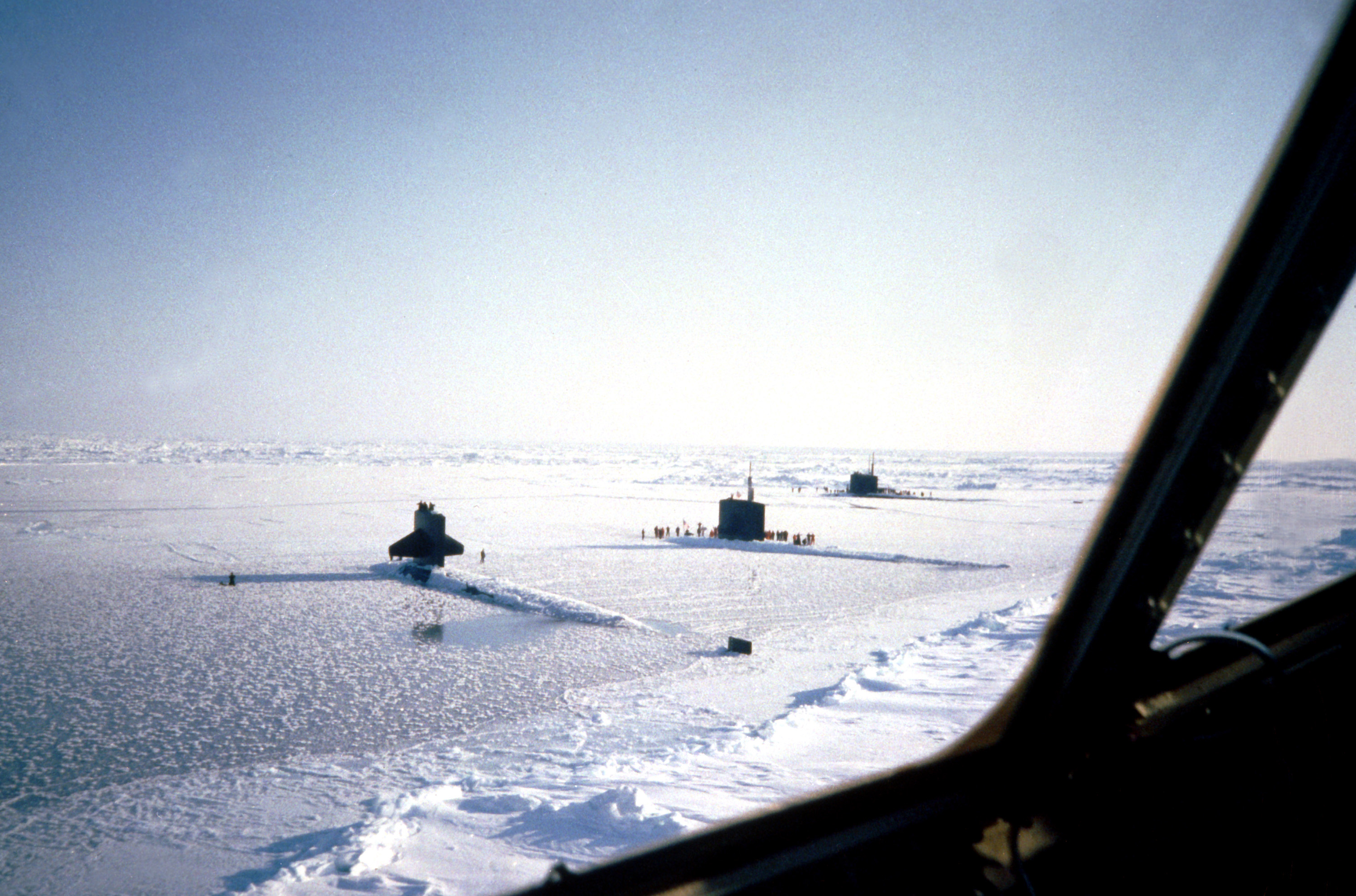 An elevated view of the attack submarines USS RAY (SSN-653), USS HAWKBILL (SSN-666), and USS ARCHERFISH (SSN-678) surfaced at the geographic North Pole. This is the first time three nuclear-powered submarines have simultaneously surfaced at the pole.